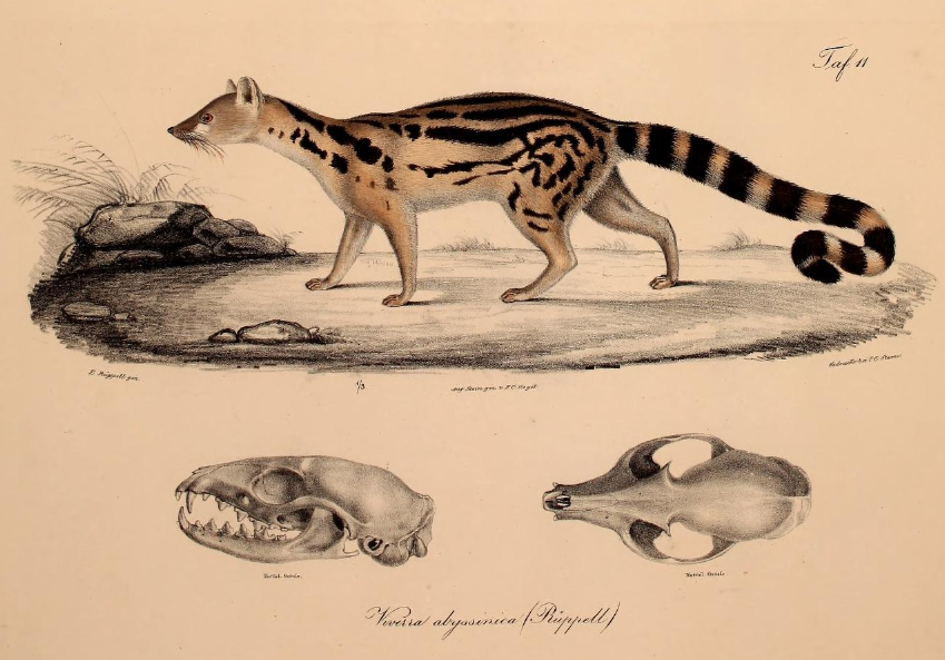 Engraving of Abyssinian genet.